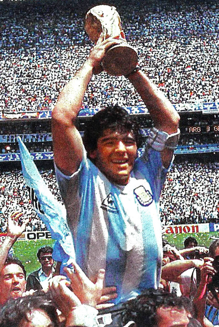 Diego Maradona holding the FIFA World Cup at the Estadio Azteca of Mexico, celebrating the 2nd. title won by Argentina.